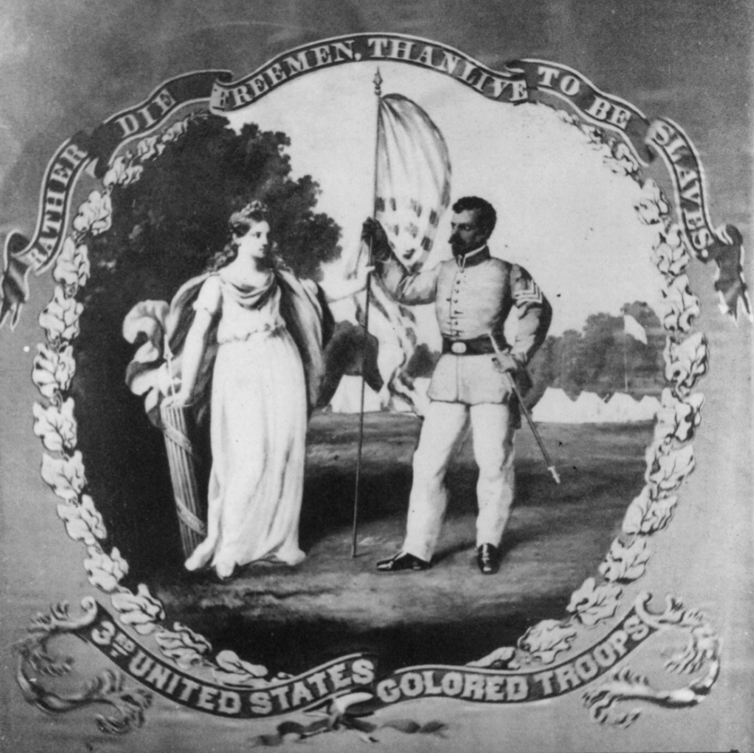 Library of Congress metadata Title: Rather die freemen than live to be slaves - 3rd United States Colored Troops Related Names: Bowser, David Bustill, 1820-1900 , artist Date Created/Published: [between 1860 and 1870] Medium: 1 photographic print on carte de visite mount : albumen. Summary: Regimental flag depicting African American soldier and Columbia holding an American flag between them. Reproduction Number: LC-USZ62-23098 (b&w film copy neg.) Rights Advisory: No known restrictions on publication. Call Number: LOT 6592, no. 134 USE SURROGATE [P&P] Repository: Library of Congress Prints and Photographs Division Washington, D.C. 20540 USA Notes: On verso: D.B. Bowser - Artist - No. 481 North 4th St. Philada. Photograph of painting by Bowser. In album: [U.S. army officers and other persons of the Civil War period / John White Geary, comp. 1861-1865], no. 134, surrogate p. 34 (upper right). Surrogate available as color laser copy in P&P Reading Room. Subjects: African Americans--Military service--1860-1870. Columbia (Symbolic character)--1860-1870. Military standards--1860-1870. United States--History--Civil War, 1861-1865--Military personnel--Union. Format: Albumen prints--1860-1870. Allegorical paintings--Reproductions--1860-1870. Cartes de visite--1860-1870. Collections: Miscellaneous Items in High Demand Bookmark This Record